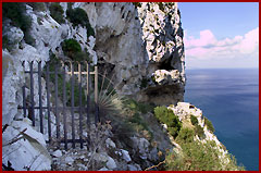 Martin's Cave padlock gate - Martin's Cave is a large cave in Gibraltar. It opens on the eastern cliffs of the Rock of Gibraltar